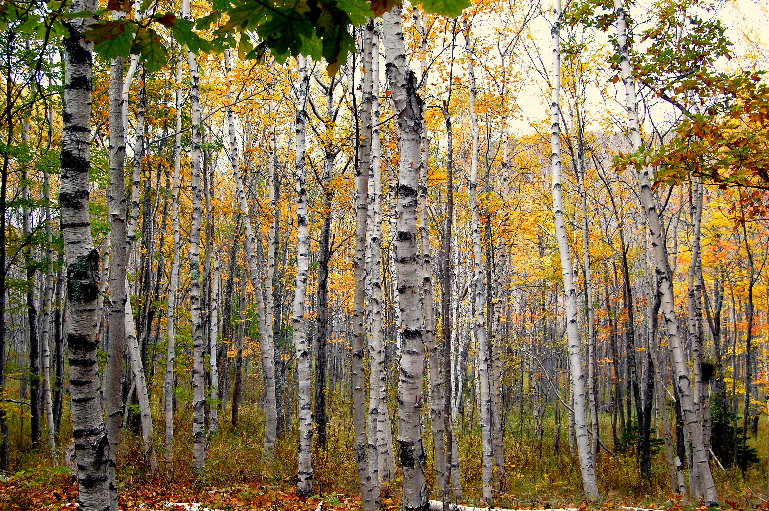 The trail leads to the site of Old Farm the horme of George Dorr, one of the original advocates for the acquisition of land for Acadia National Park. The home site is located at Schooner Cove. The house has been torn down, but remains of george's salt water swimming pool, fed by the tide, can still be seen.